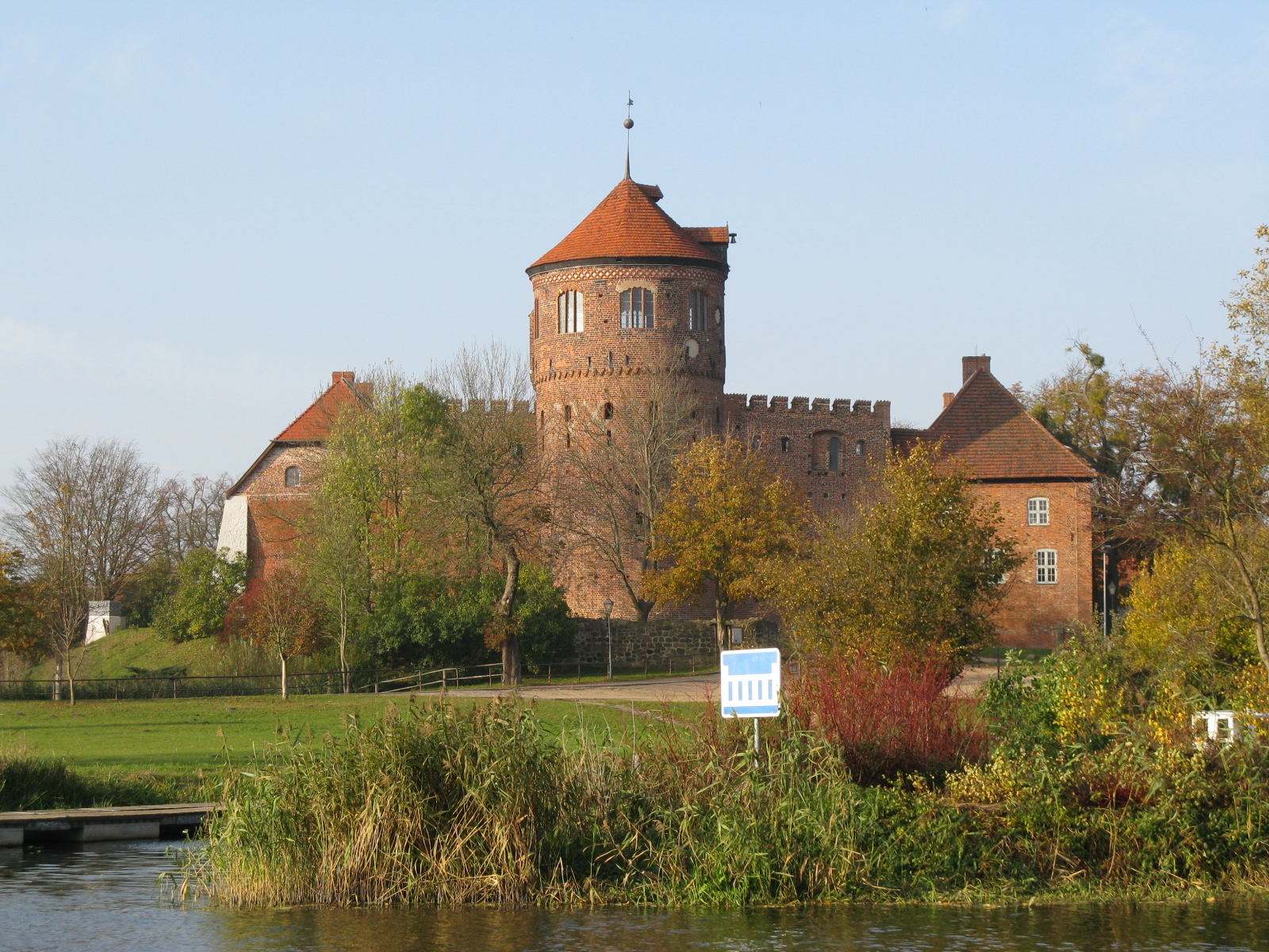 Alte Burg (Old castle) of Neustadt-Glewe, Germany